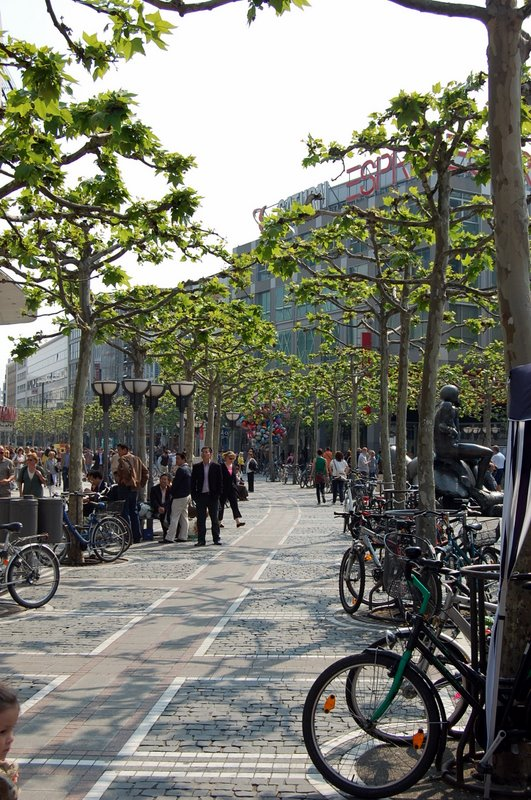 Zeil with typical trees.